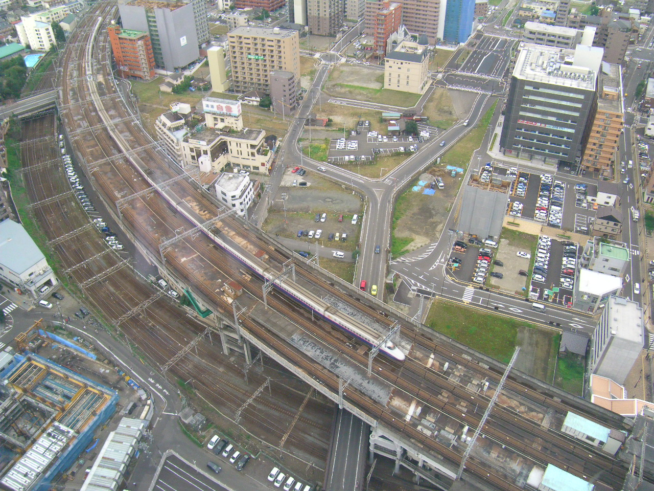 The Miyagino Bridge in Sendai City, Miyagi Prefecture, Japan. The Tōhoku Main Line runs on the ground, the bridge and Tōhoku Shinkansen cross over. Westward from the Aer observation terrace in Chuo 1 chome, Aoba-ku.